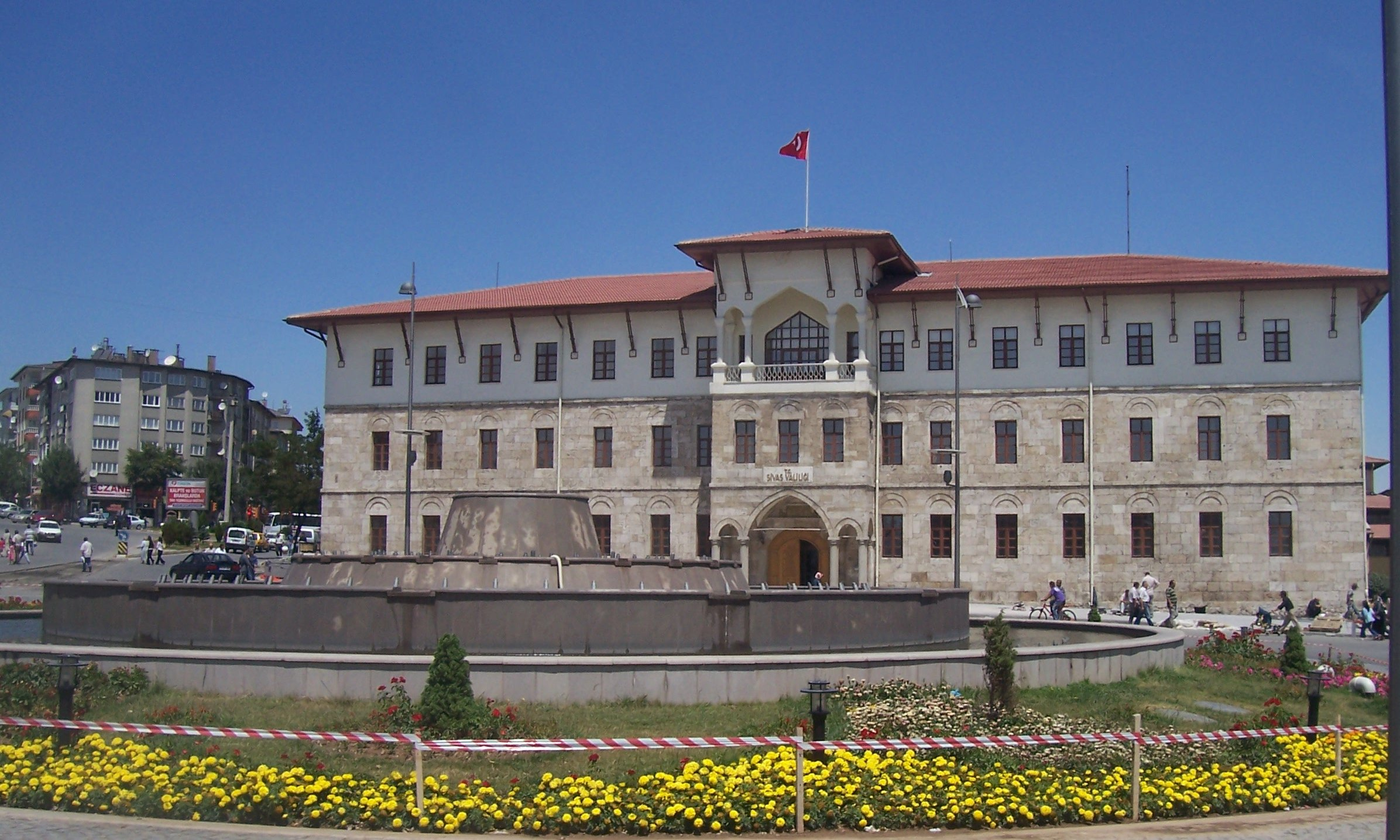 Sivas Governor's Mansion